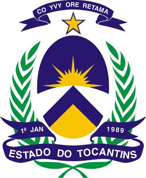 Coat of arms of Tocantins in Brazil.